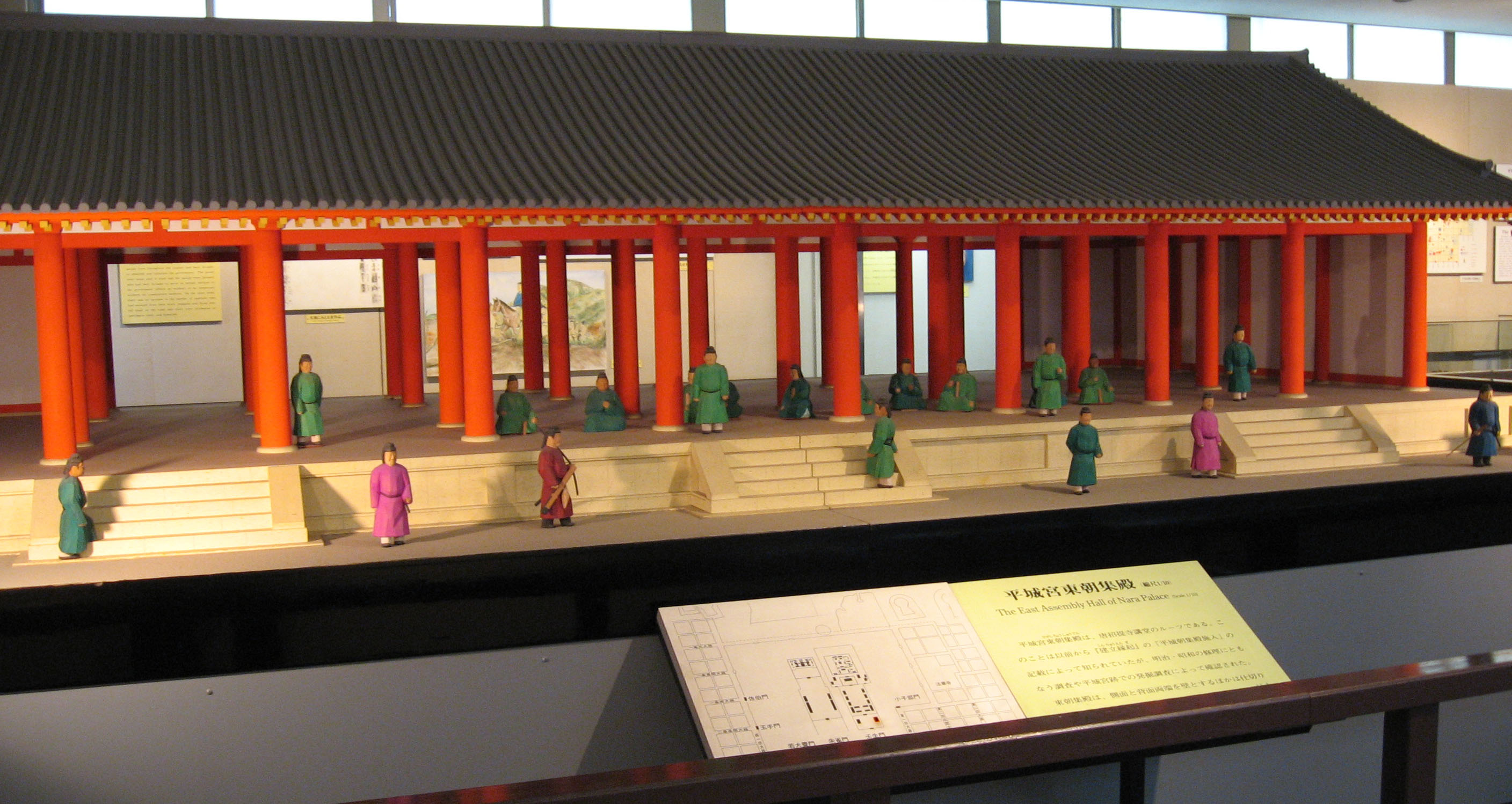 Scale model of Choshuden, Heijokyo